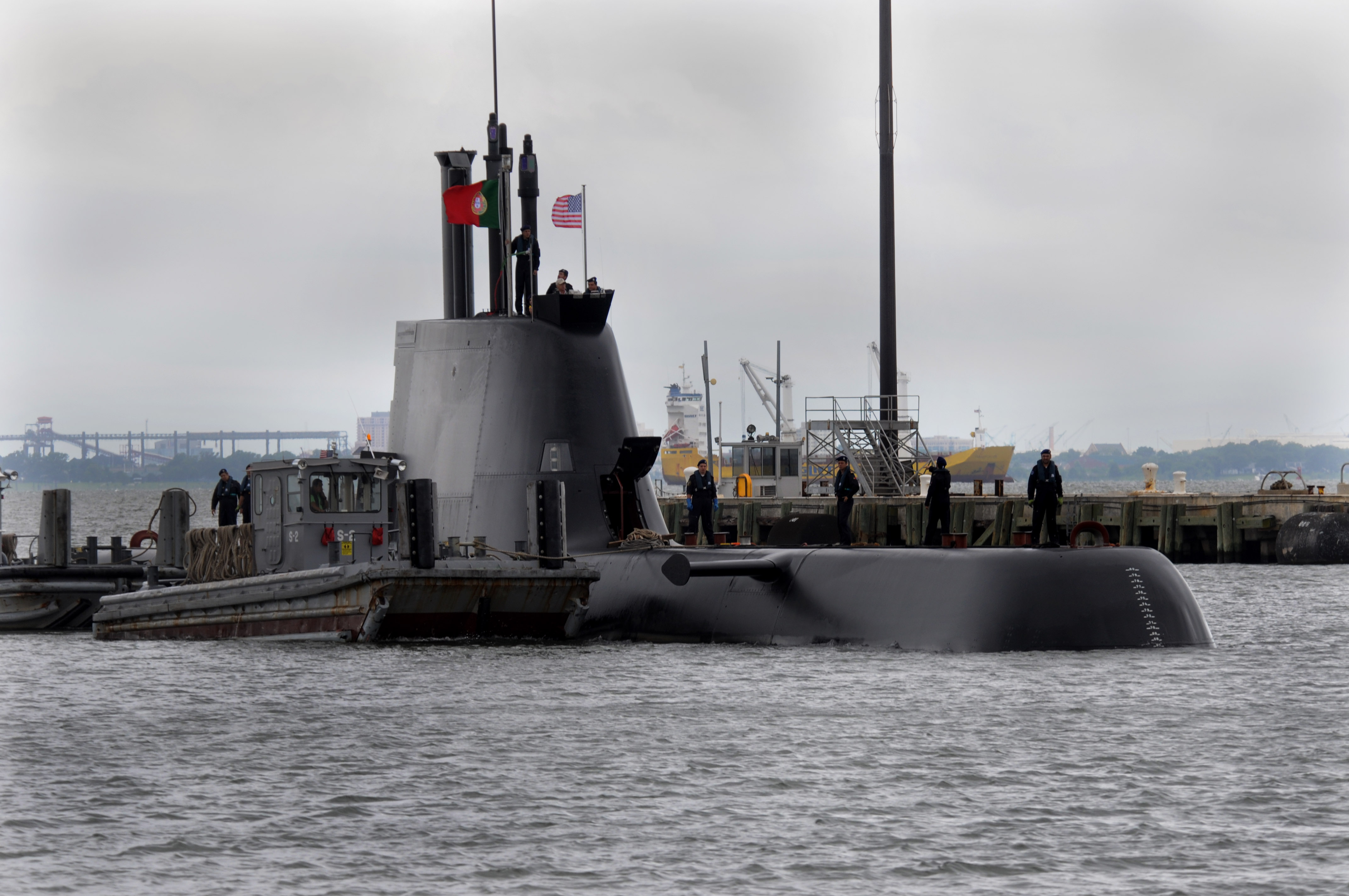 NORFOLK (June 14, 2012) The Portuguese navy submarine NRP Tridente (S 160) arrives at Naval Station Norfolk. Tridente is scheduled to participate in the multinational fleet training exercise War of 1812 June 19-29.